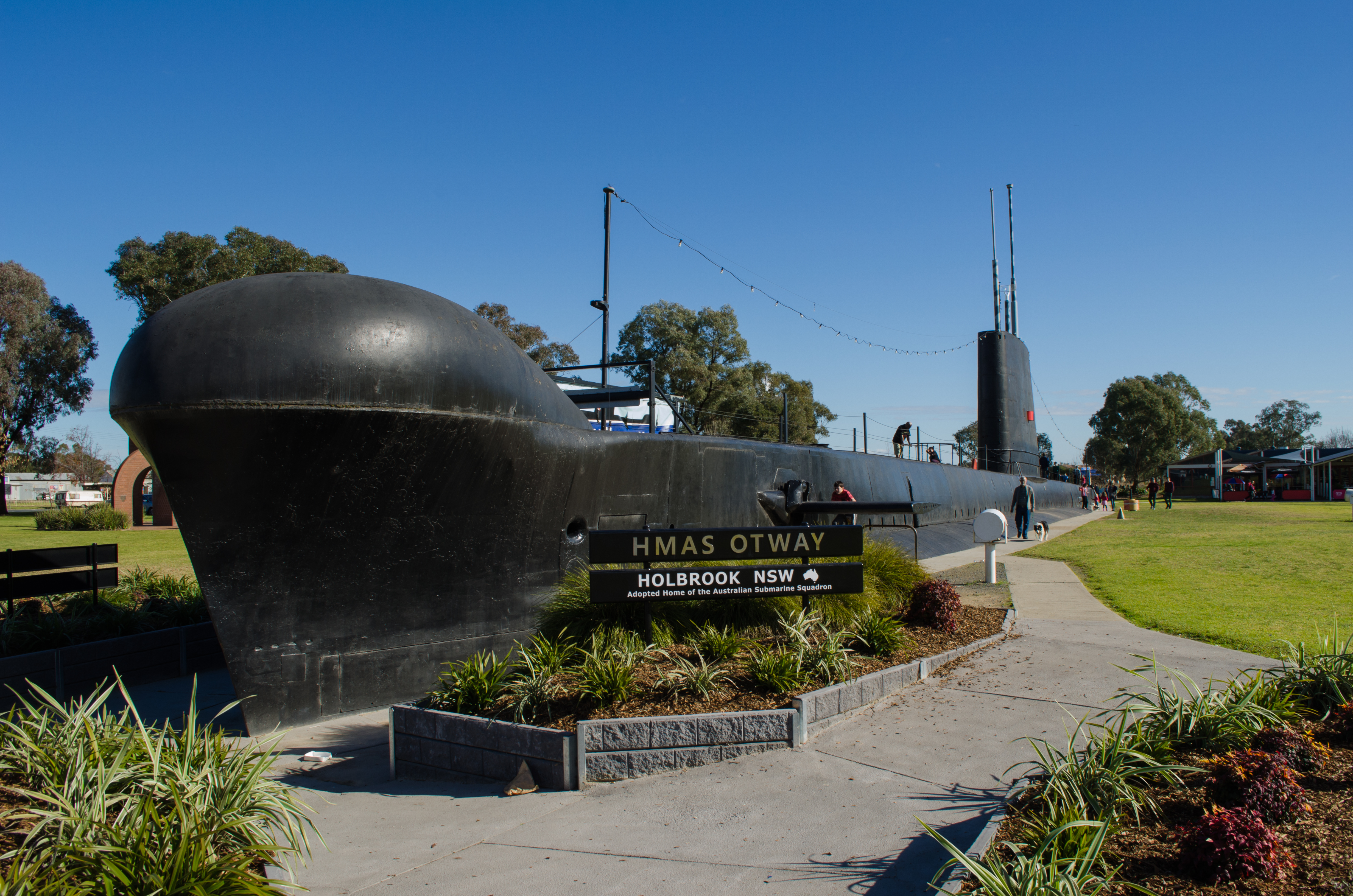 The casing of the Australian submarine HMAS Otway in Holbrook, New South Wales